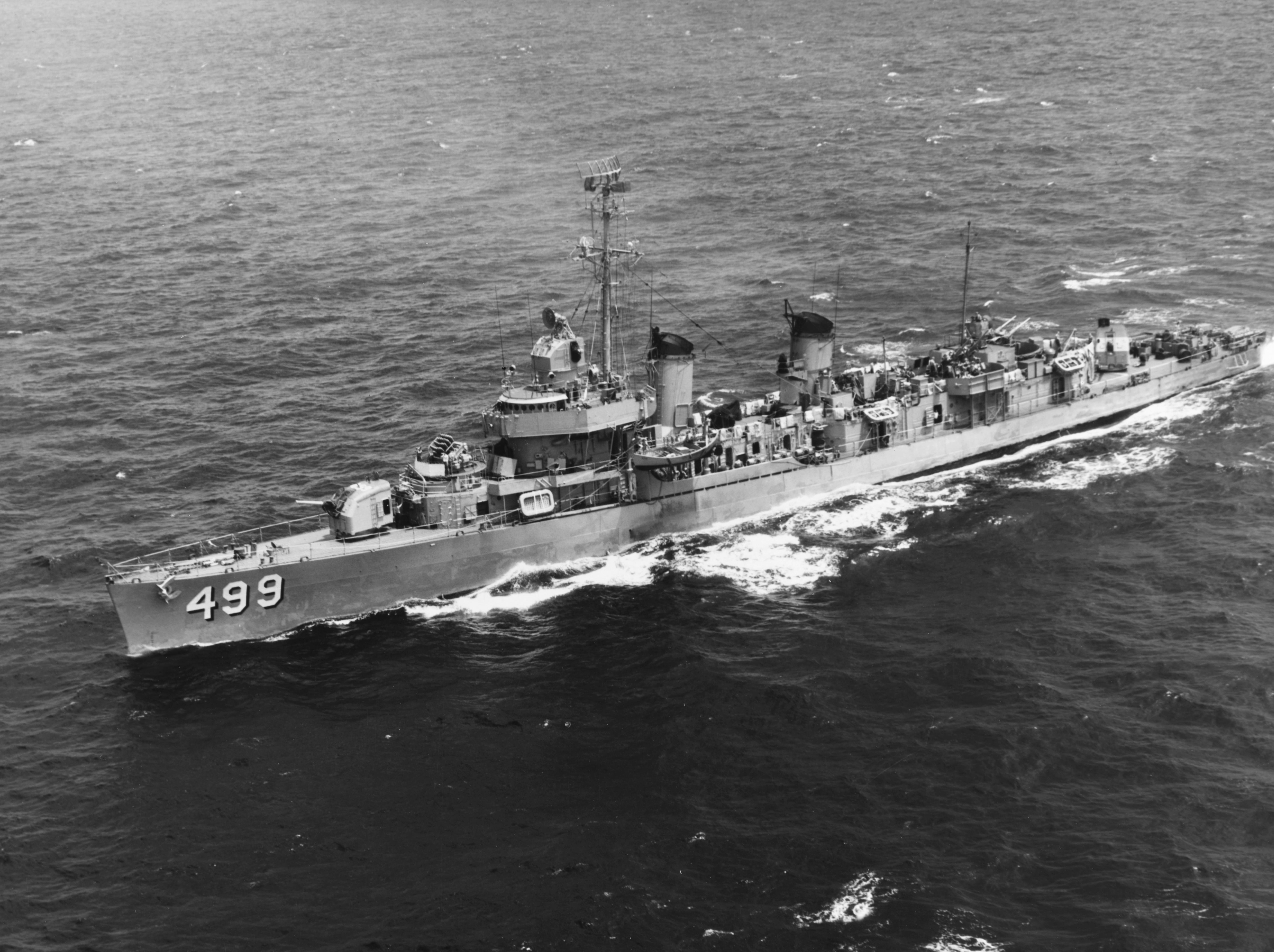 The U.S. Navy destroyer USS Renshaw (DDE-499) photographed from an aircraft from the escort carrier USS Sicily (CVE-118), while operating in Korean waters on 27 July 1951.